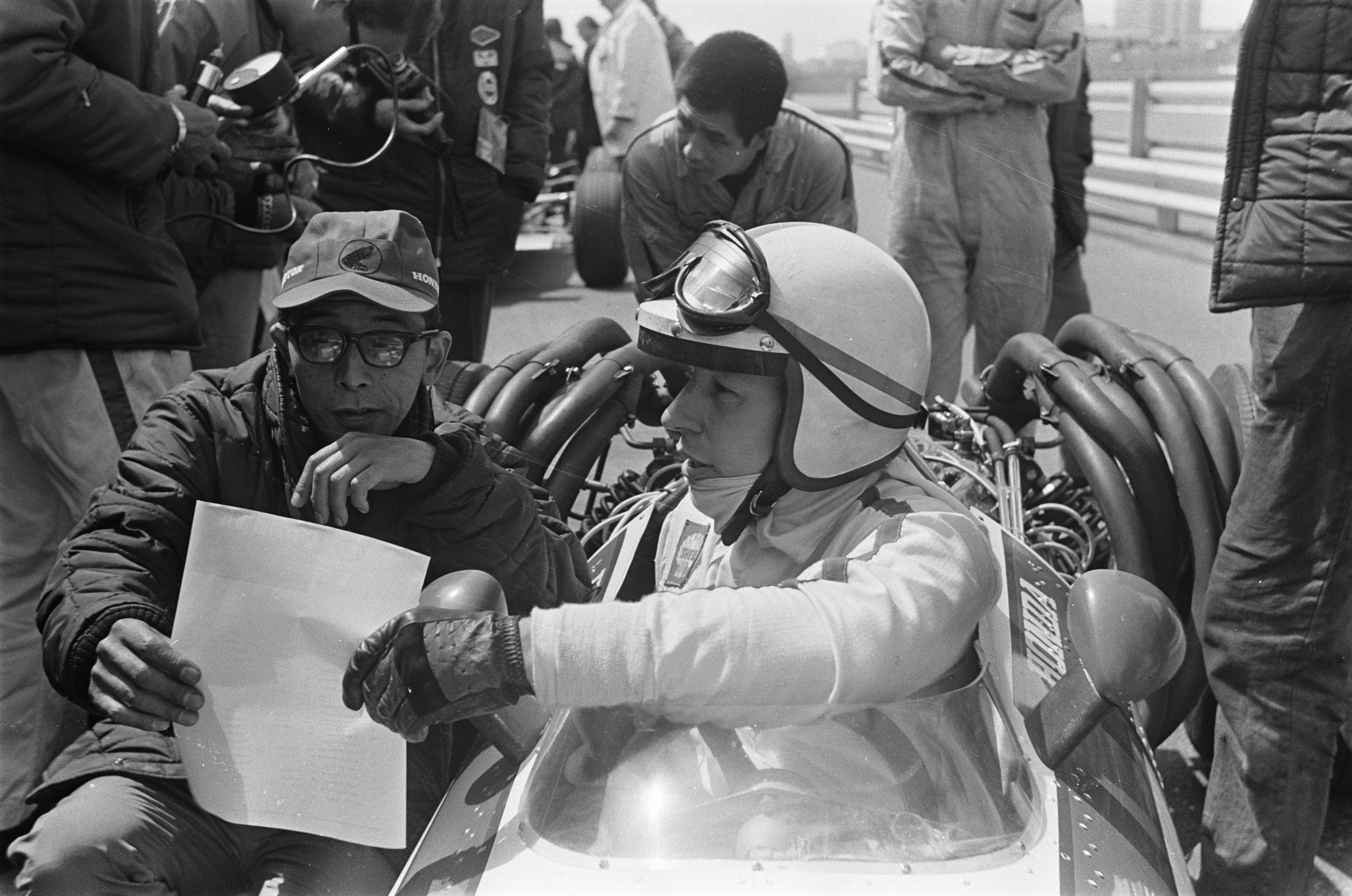 John Surters and Yoshio Nakamura (team director) at the 1968 Dutch Grand Prix.